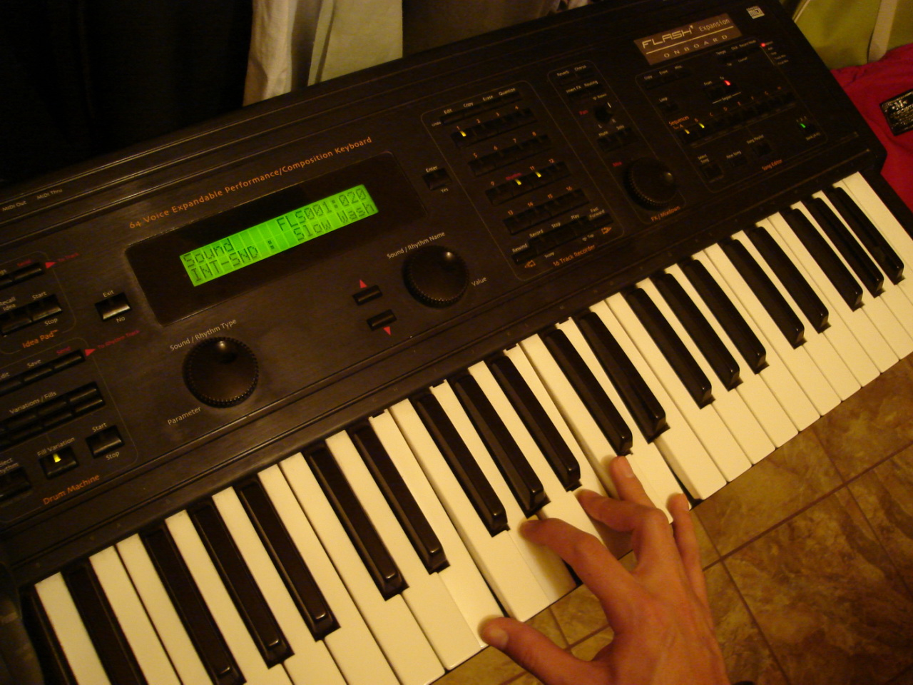 my new keyboard